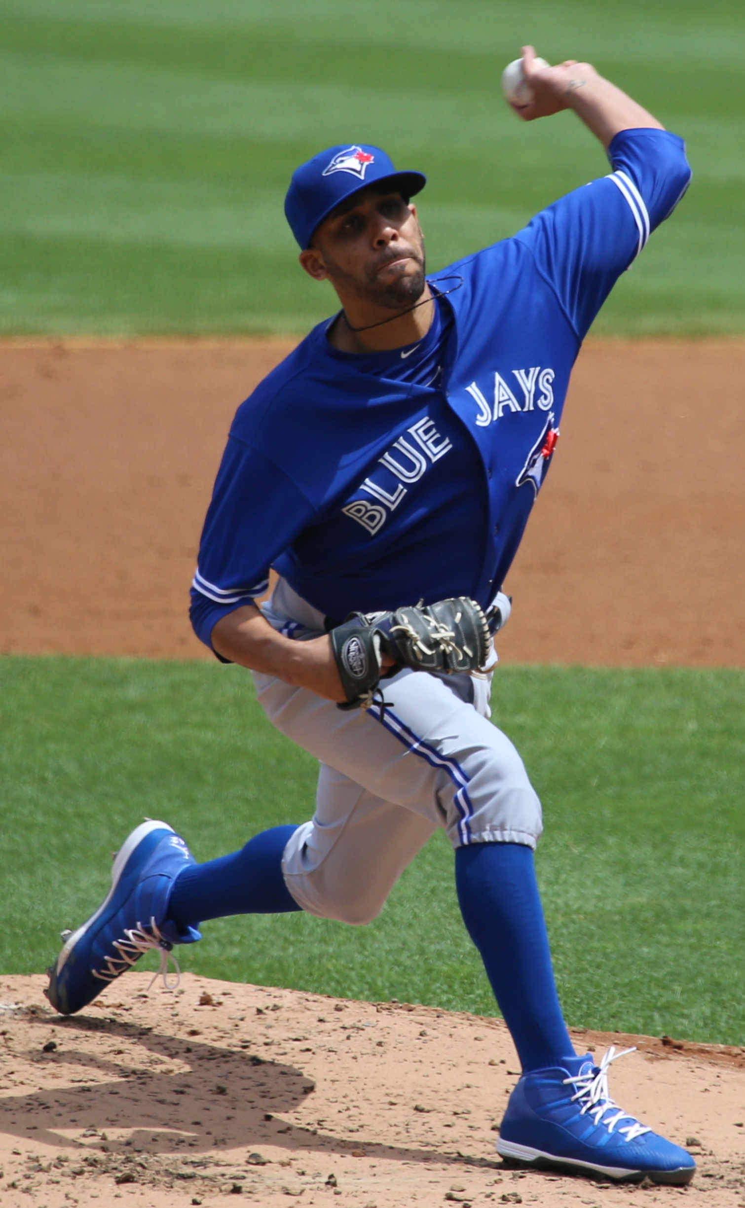 David Price